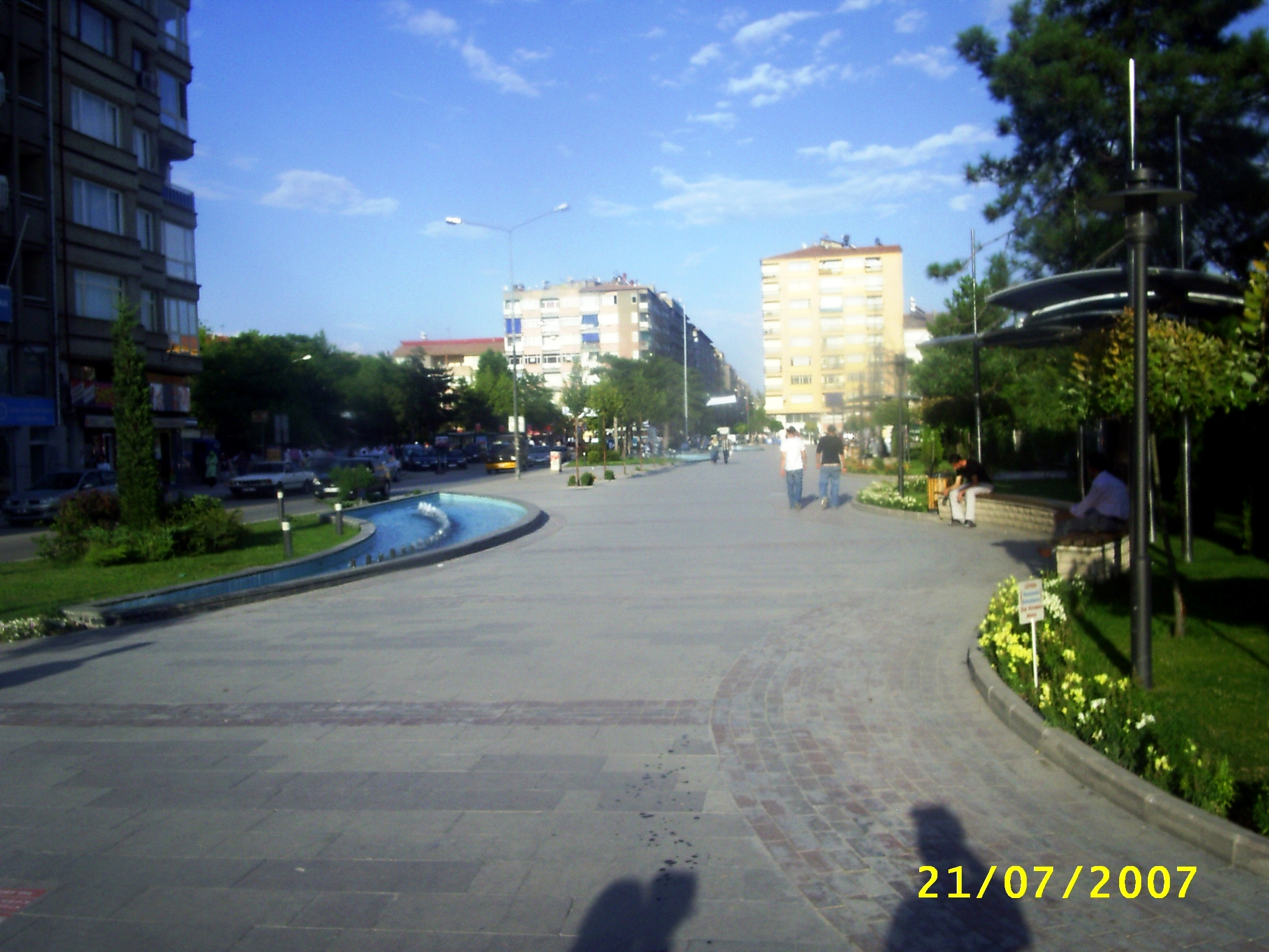 A wiew Elaziğ city in East Anatolian Region,Turkey